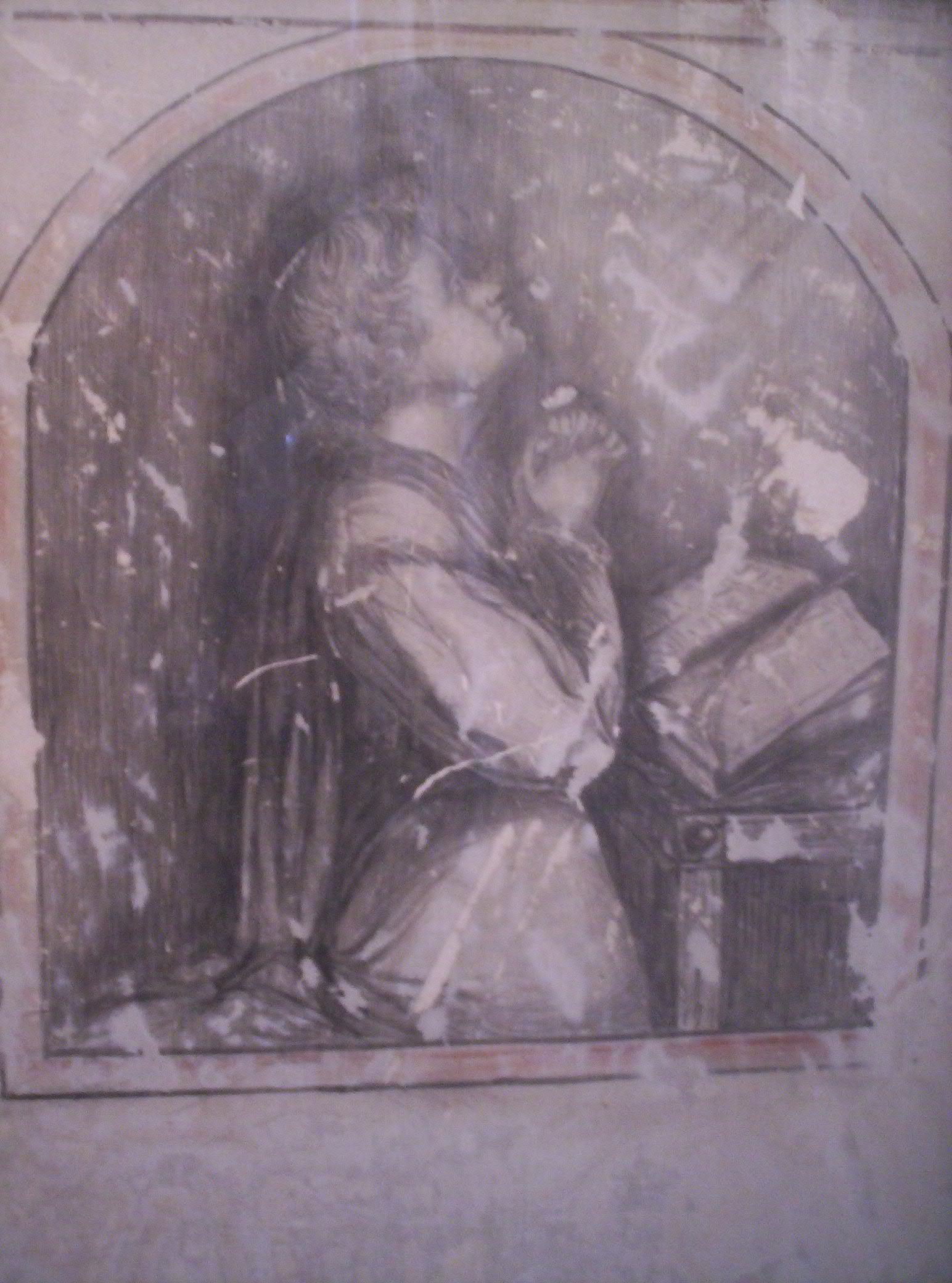 Artwork found under whitewash in James Walsh`s cell Fremantle Prison